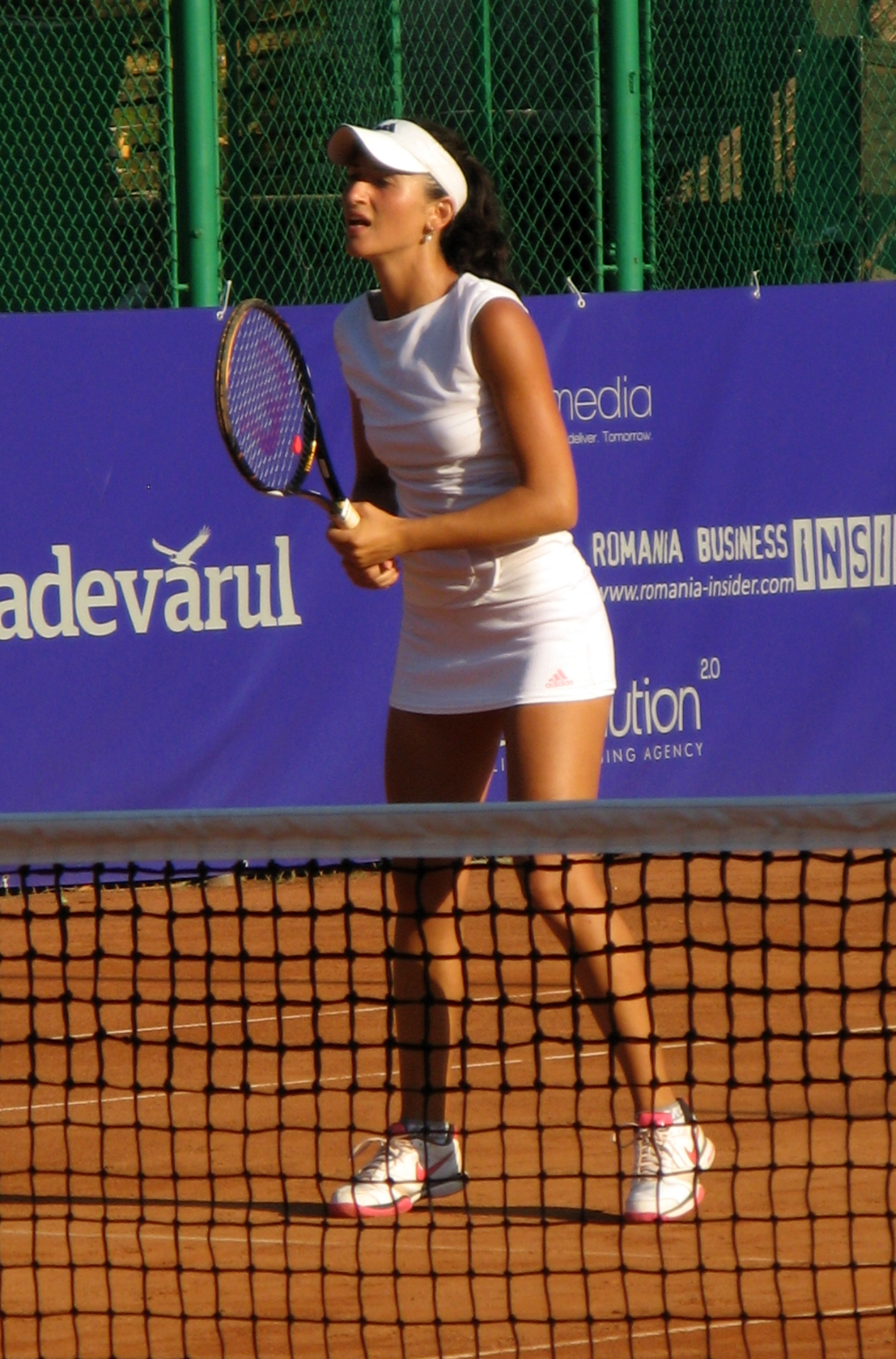 Alexandra Cadanţu playing doubles in the first round at 2011 BCR Open Romania Ladies